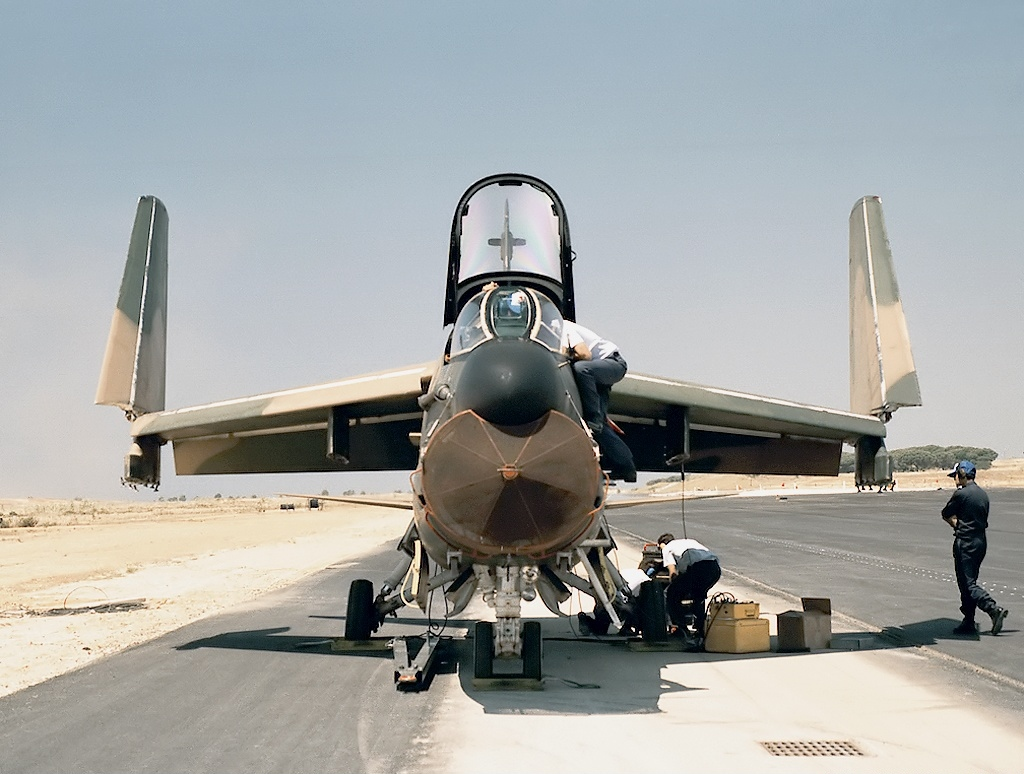 The aircraft is being repaired after an emergency landing without engine.